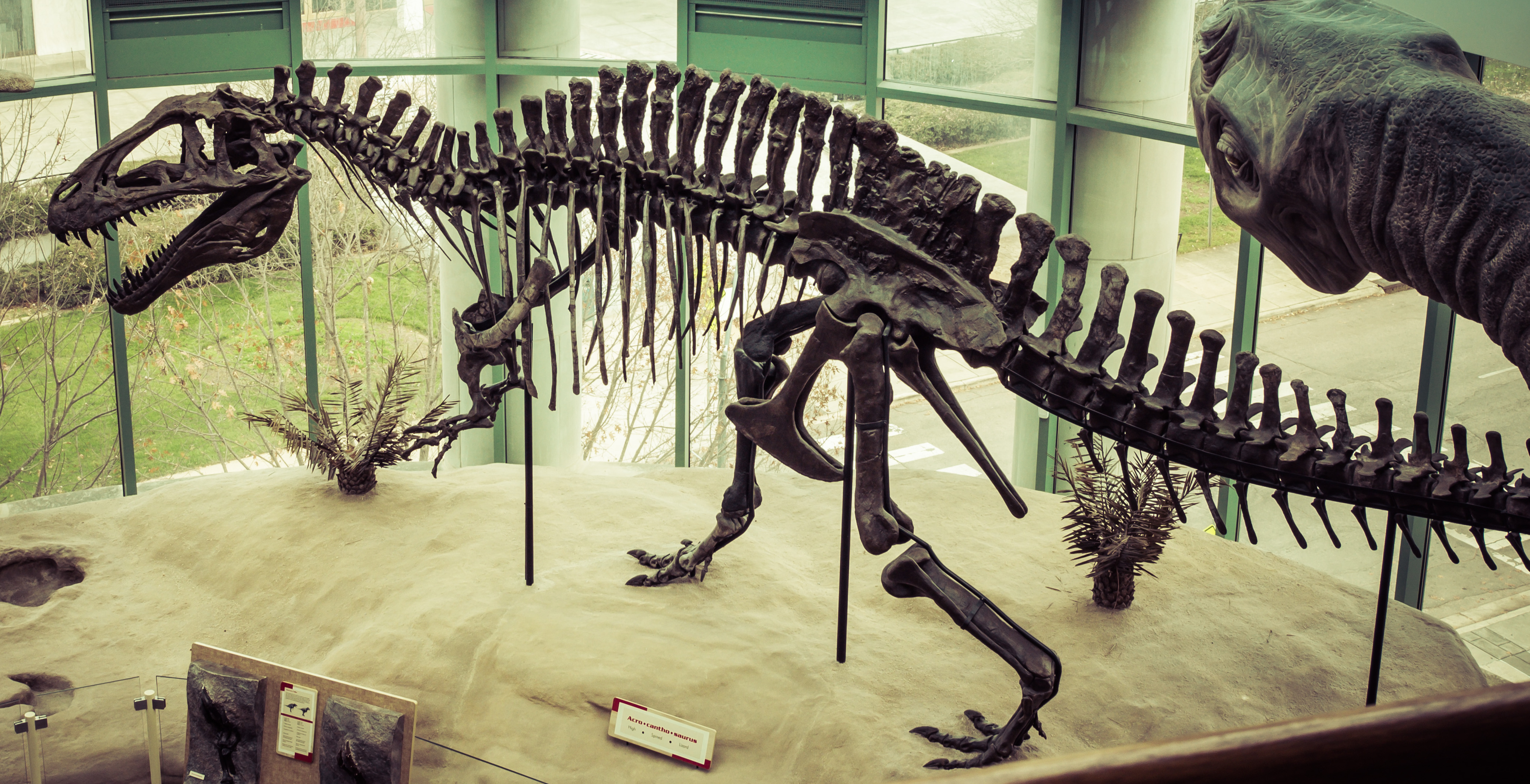 Mounted skeleton of Acrocanthosaurus specimen NCSM 14345 at North Carolina Museum of Natural Sciences